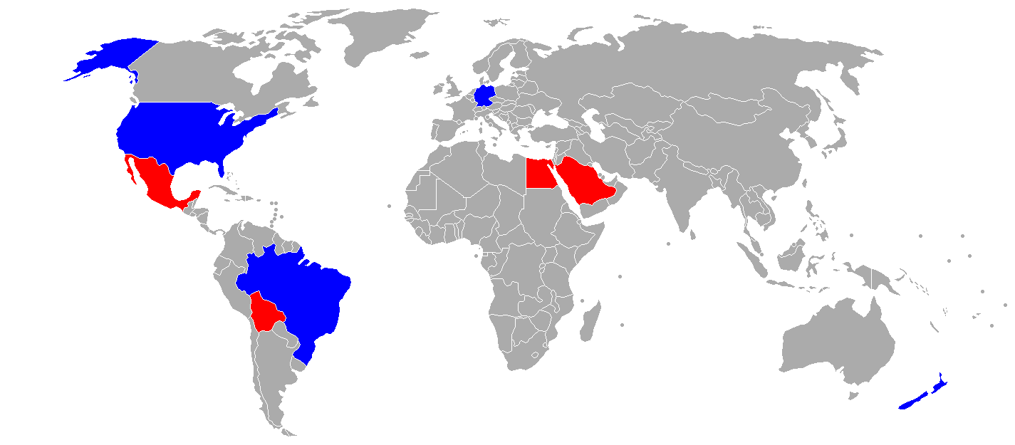 1999 FIFA Confederations Cup